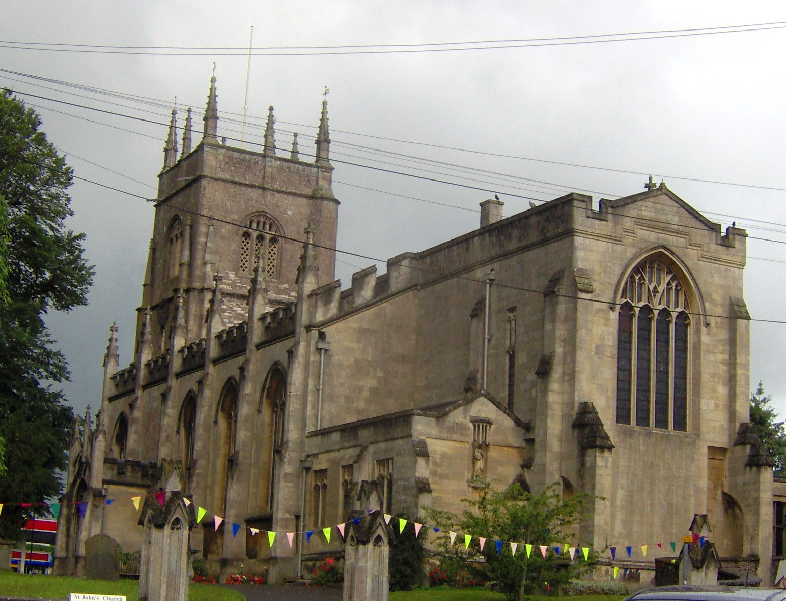 Church in Midsomer Norton. Taken by Rod Ward.